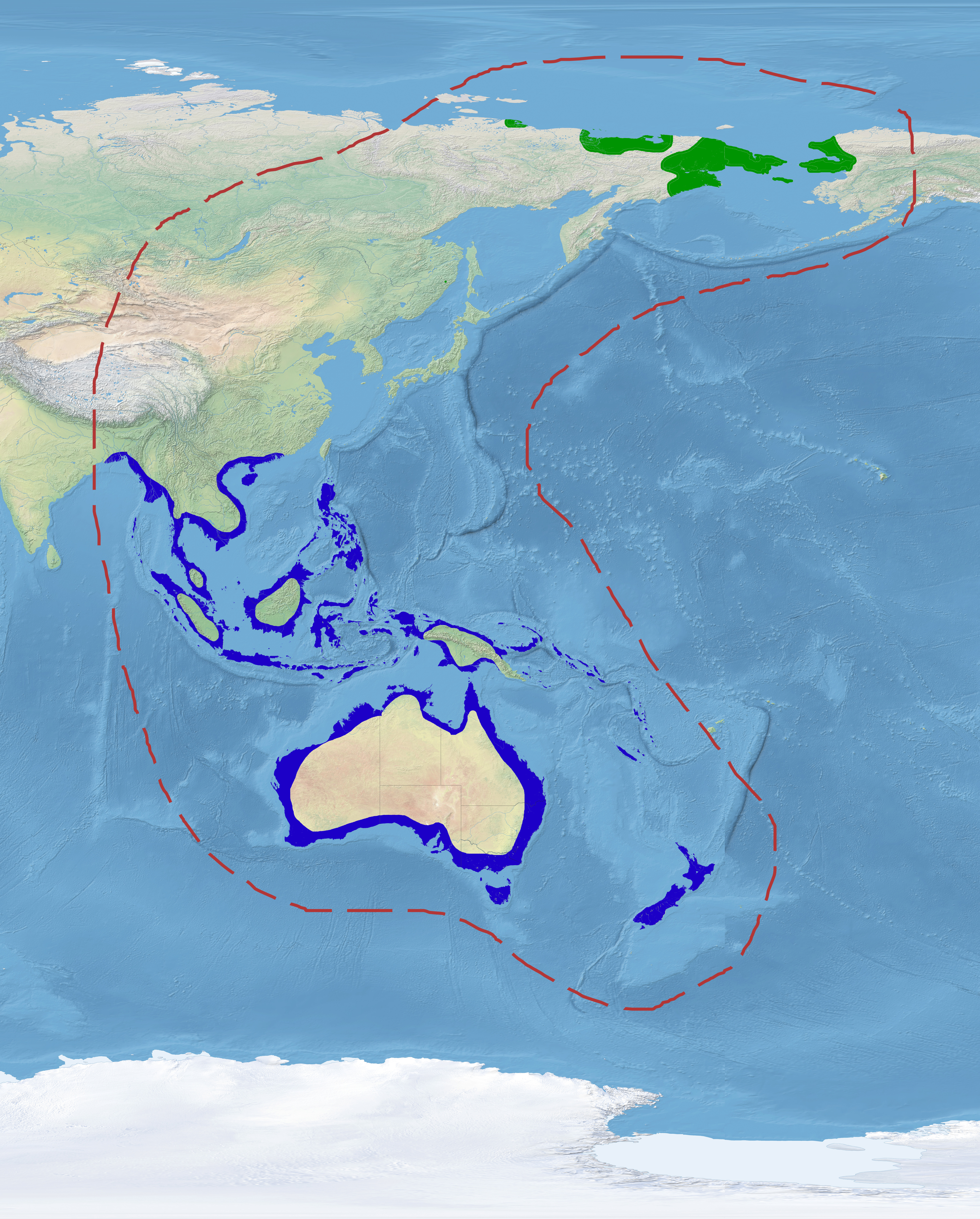 The Distribution of the Red-necked Stint, Red line shows estimated distribution, green is Breeding range, and Blue is Wintering Range